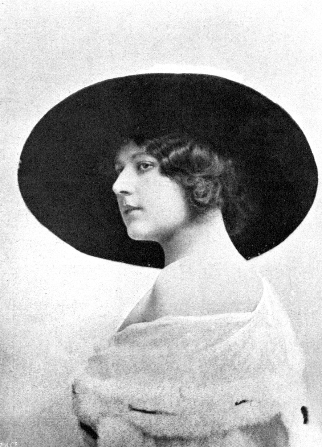 Betty Fischer, Austrian operetta singer; 1912